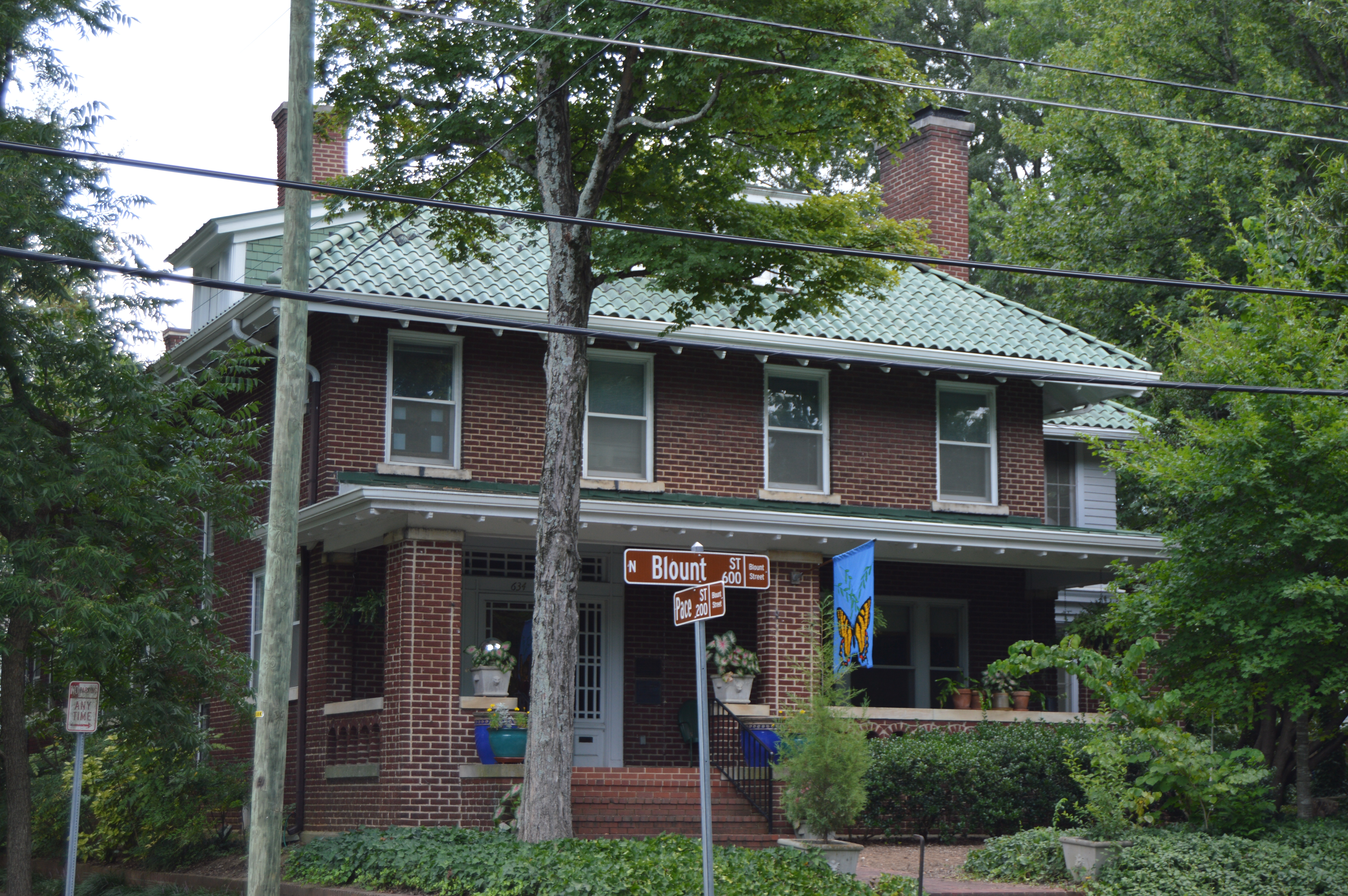 Front and northern side of the Dr. Hubert Benbury Haywood House, located at 634 N. Blount Street in Raleigh, North Carolina, United States. Built in 1916, it is listed on the National Register of Historic Places.